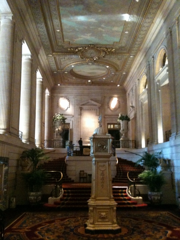 The Hilton Chicago ballroom lobby.